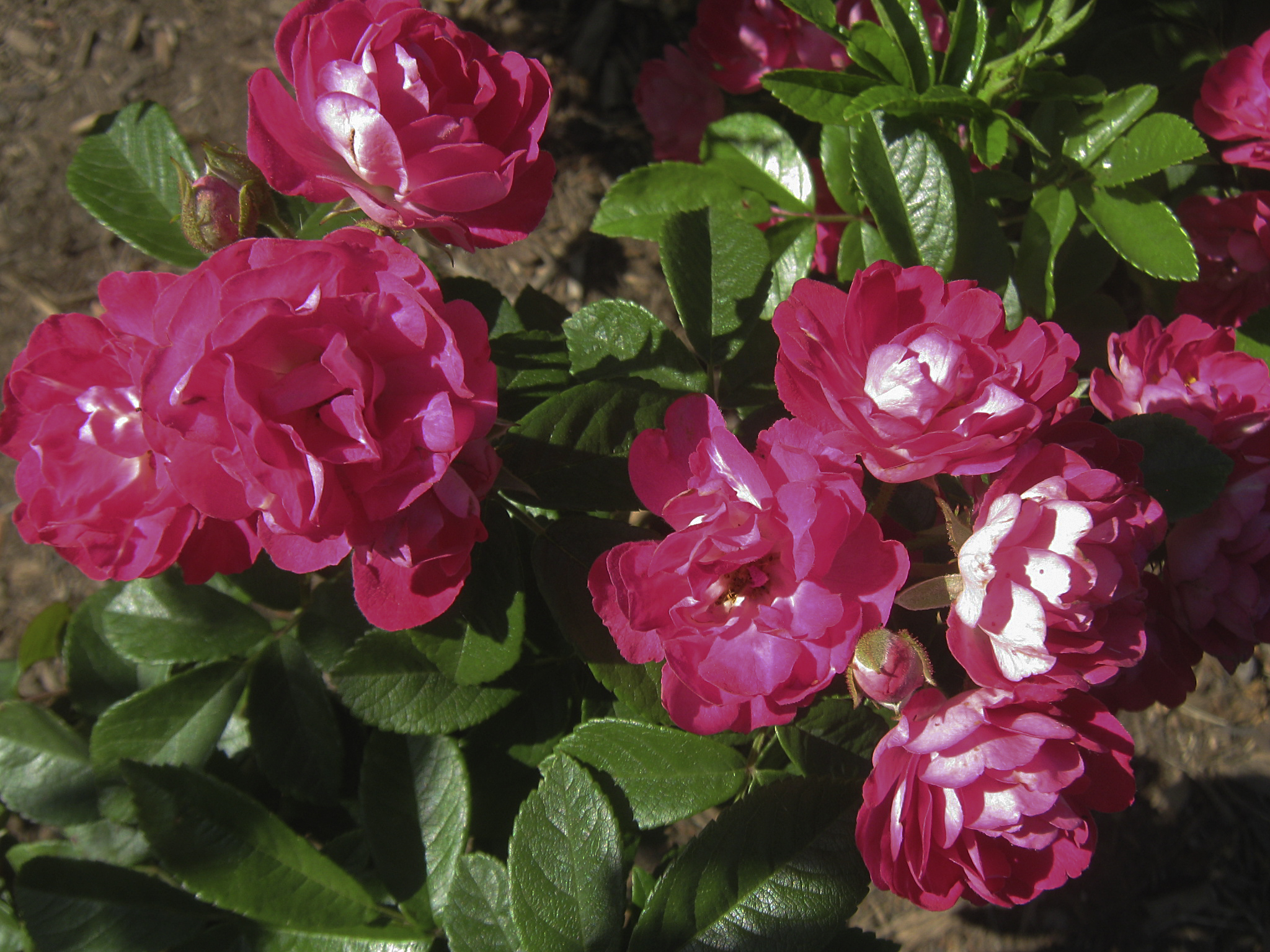 Rose 'Esmeralda', Hybrid Multiflora by Riethmuller 1957; photographed in a private garden in St Kilda, Victoria